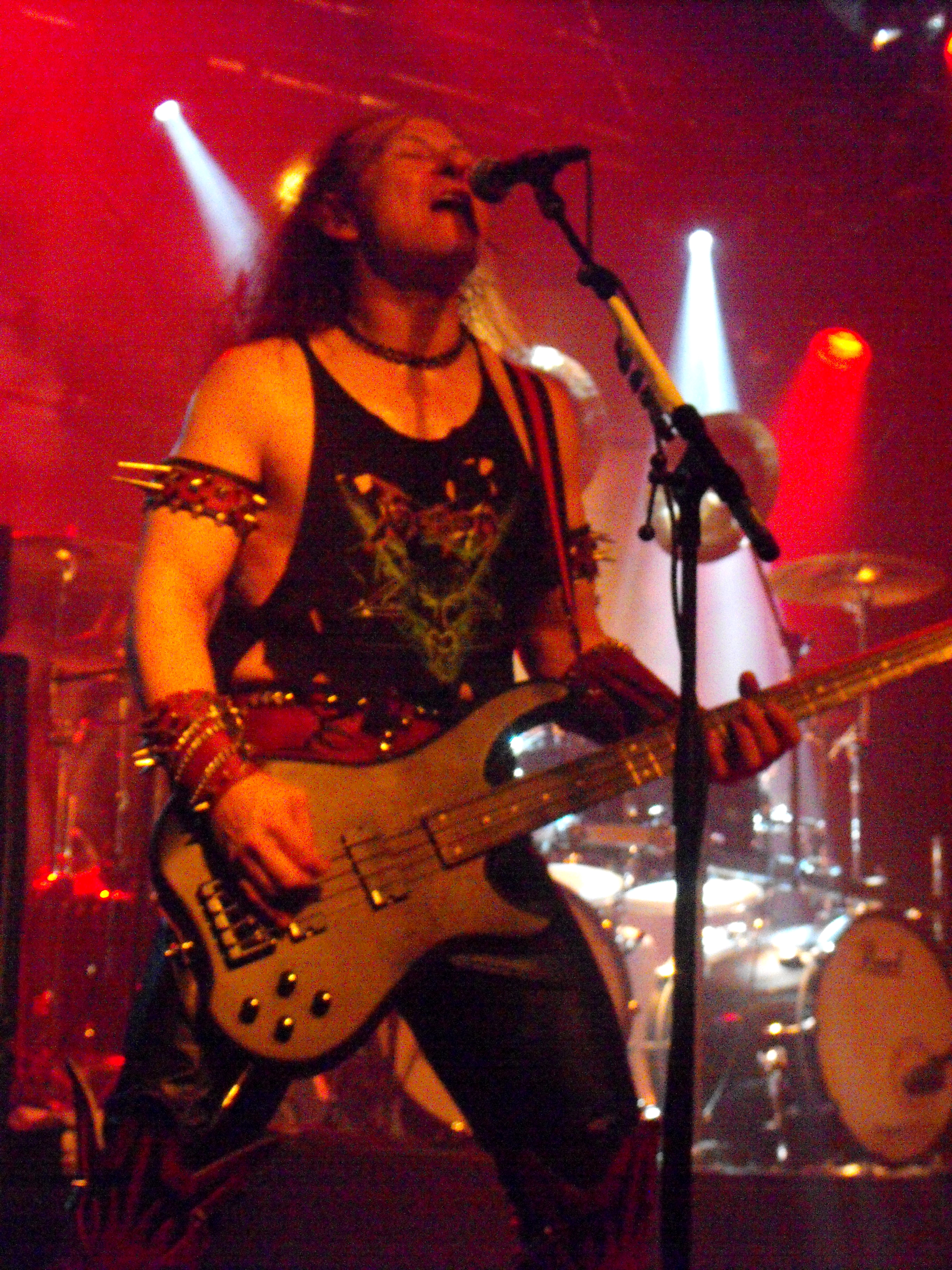 Cronos of Venom performing live at Hole in the Sky festival in August 2010